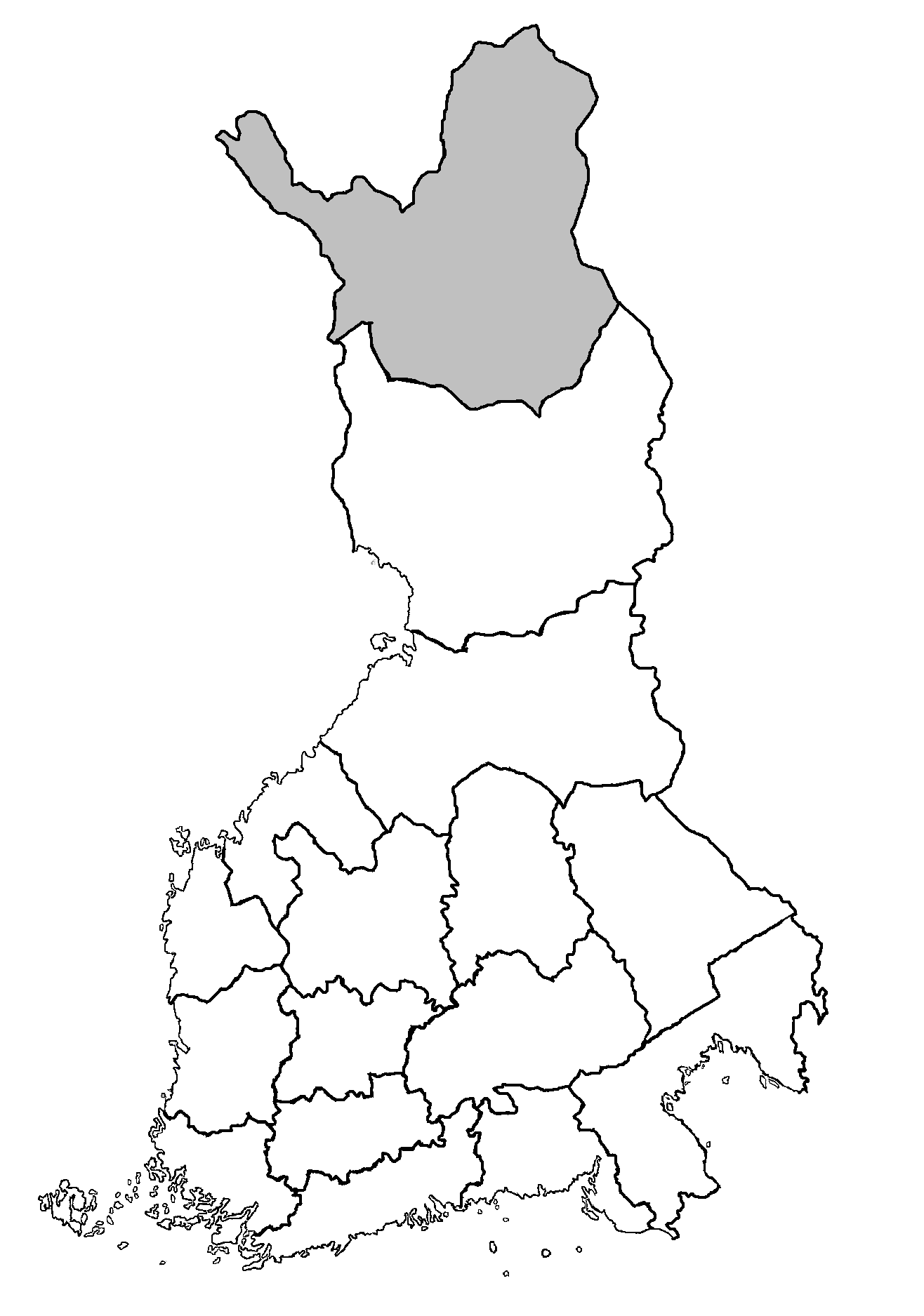 Lapin vaalipiiri 1907